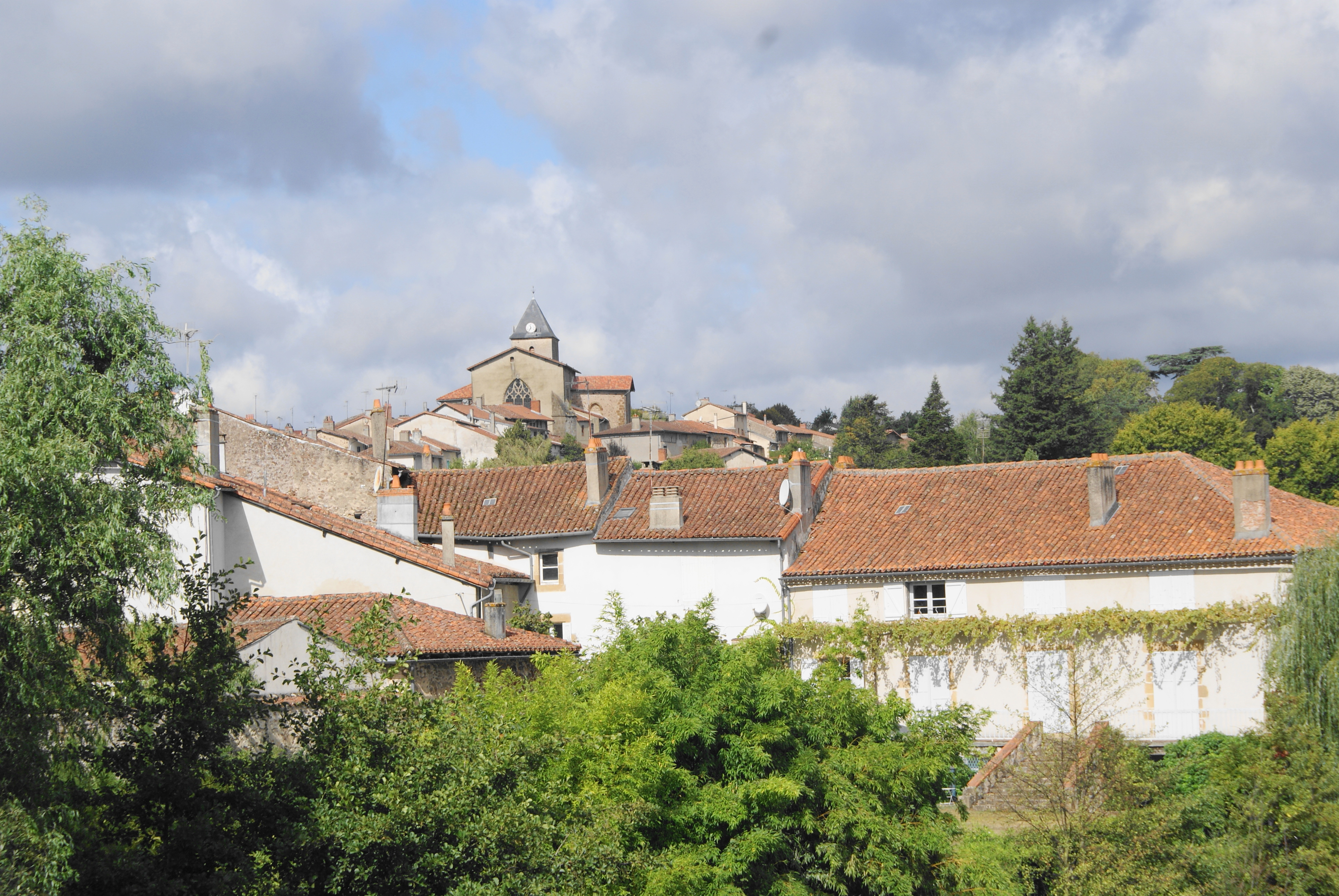 Church at top of village viewed from South aspect